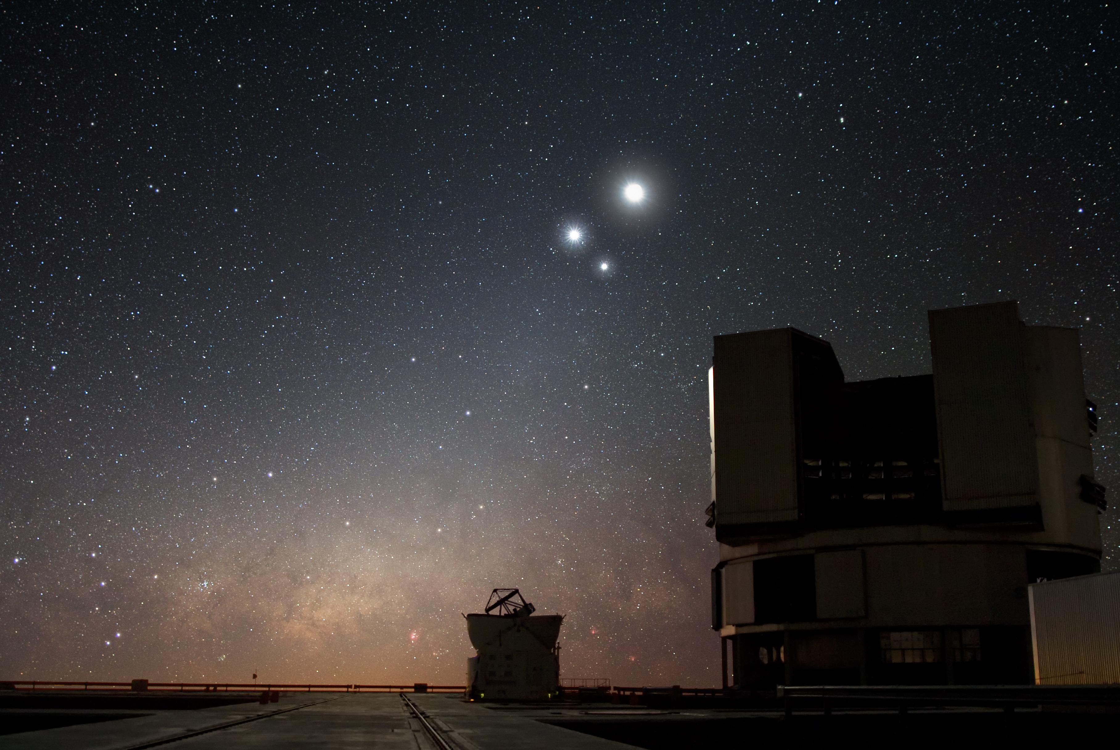 In the night sky over ESO’s Very Large Telescope (VLT) observatory at Paranal, the Moon shines along with two bright companions : already aloft in the heavens and glowing in the centre of the image is Venus, Earth’s closest planetary neighbour, and, to its right, the giant, though more distant planet, Jupiter. Such apparent celestial near misses — although the heavenly bodies are actually tens to hundreds of millions of kilometres apart — are called conjunctions. Still other sights delight this night view at Paranal : the radiant, reddish plane of the Milky Way, smouldering on the horizon, and an 8.2-metre VLT Unit Telescope, along with a 1.8-metre Auxiliary Telescope, standing firmly on the ground.